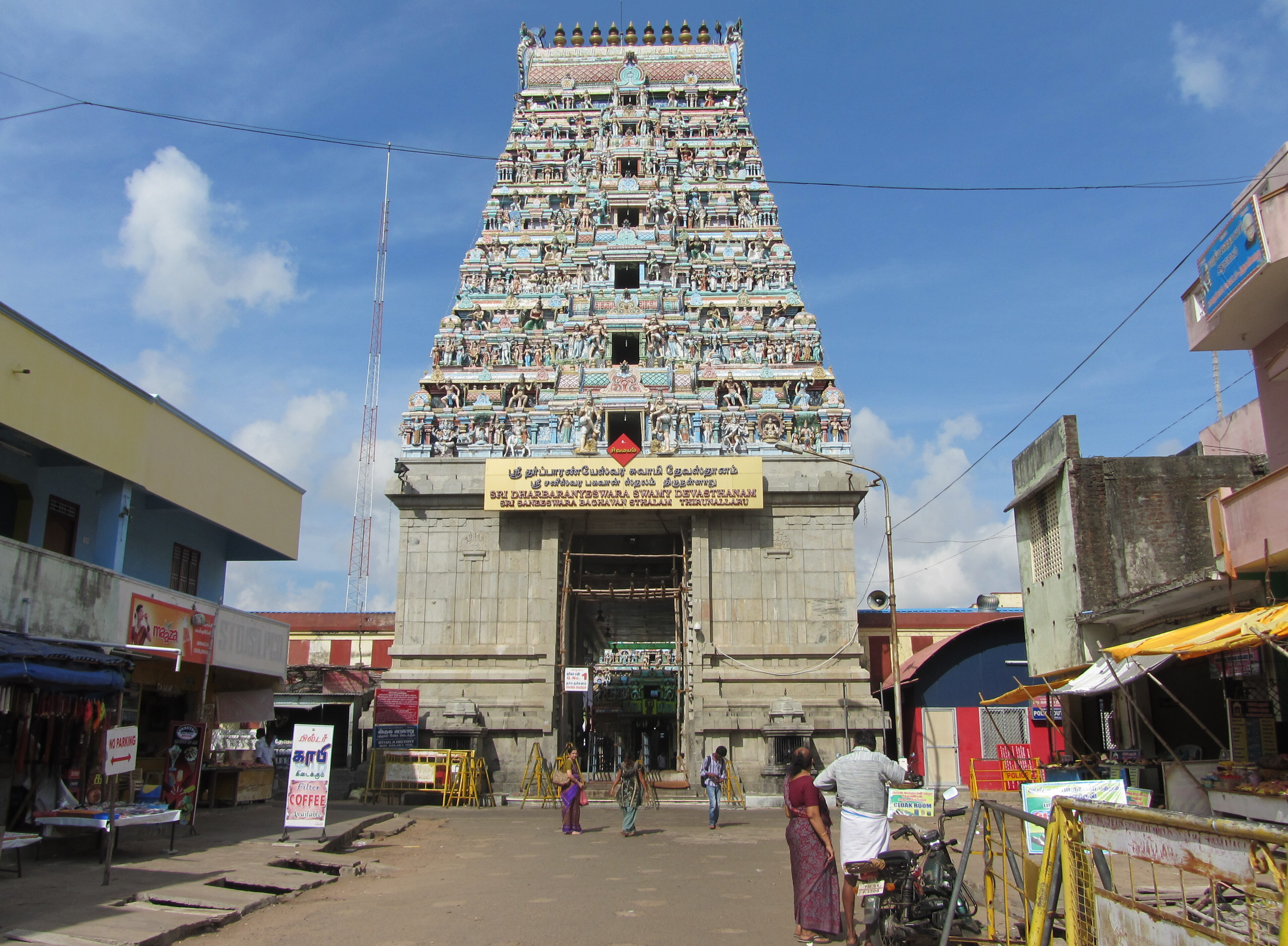 Thirunallar in Karaikkal District of Puduchery. Seat of Lord Sani, (Saturn), one of the navagrahas.